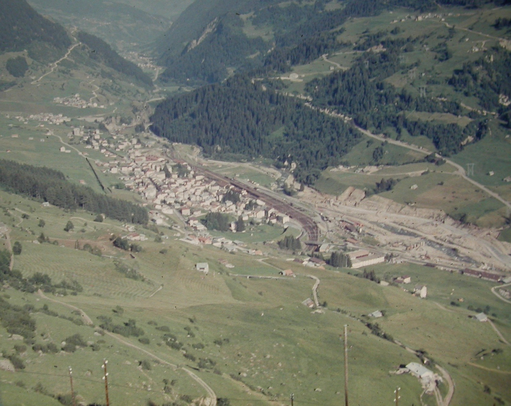 Airolo during the construction of the equalizing basin of the hydropower installations of the now (since 2015) Azienda Elettrica Ticinese